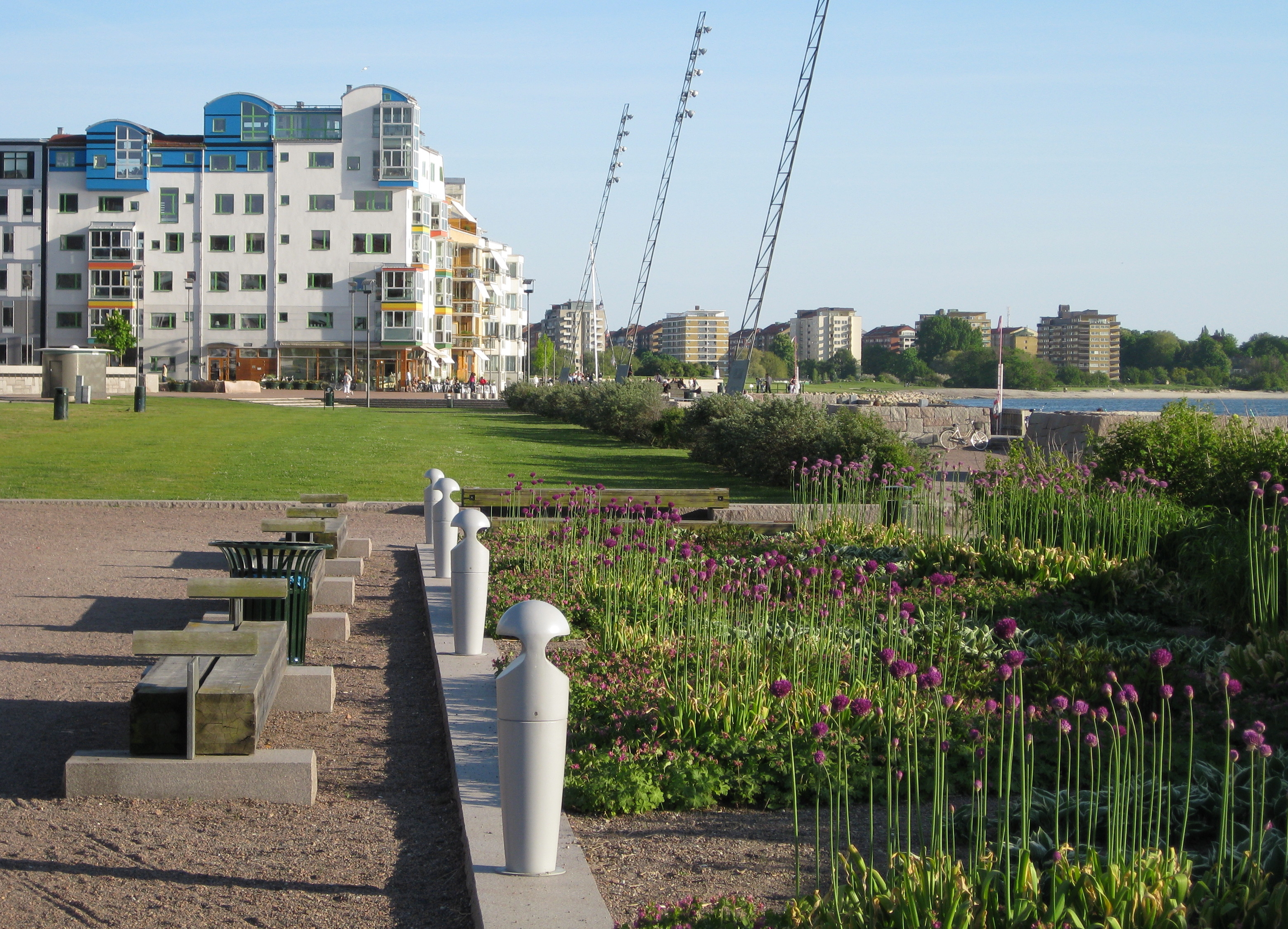 Daniaparken in Västra Hamnen, Malmö, Sweden